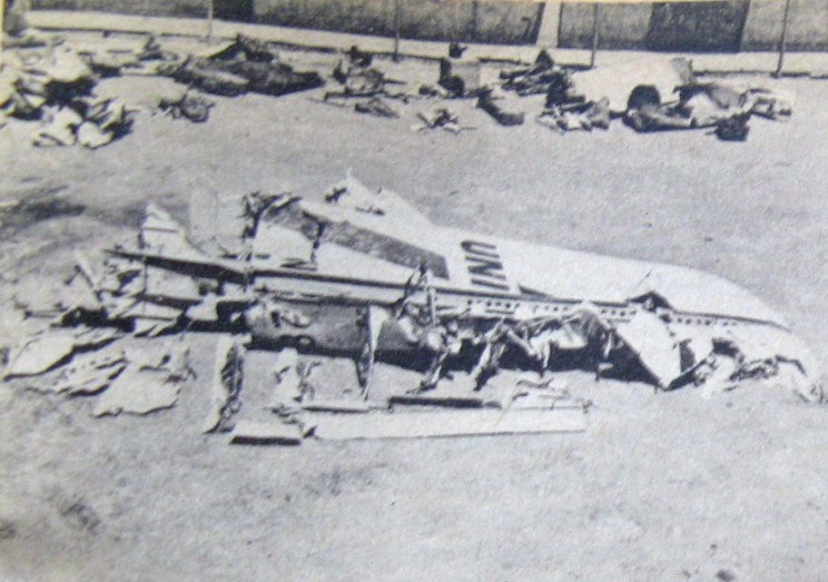 Some of the debris collected from United Airlines Flight 736, a DC-7 which crashed on April 21, 1958 southwest of Las Vegas, Nevada.